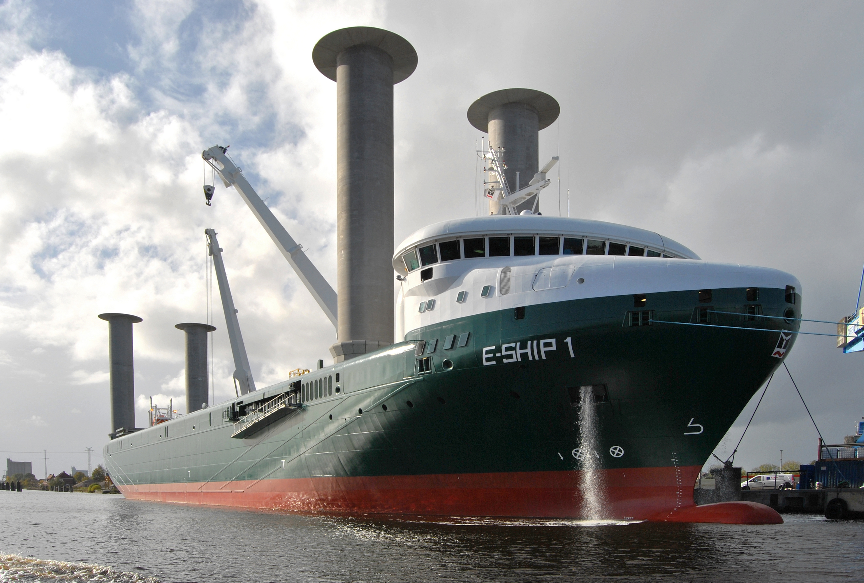 The German RoLo cargo ship E-Ship 1 in the harbour of Emden call sign: DGFN2 IMO: 9417141 MMSI: 218108000